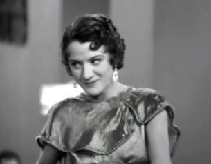 picture of margie hines